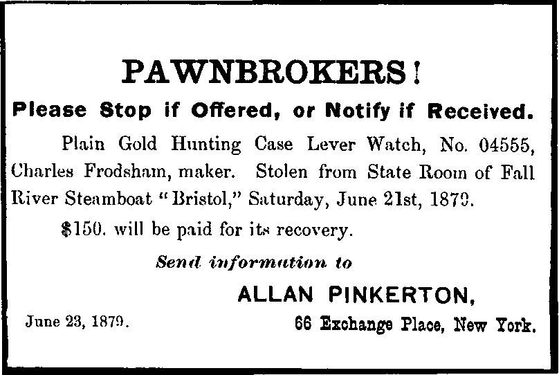 Postcard offering a reward for the recovery of Peirce's watch. From the Coast and Geodetic Survey files in the National Archives.